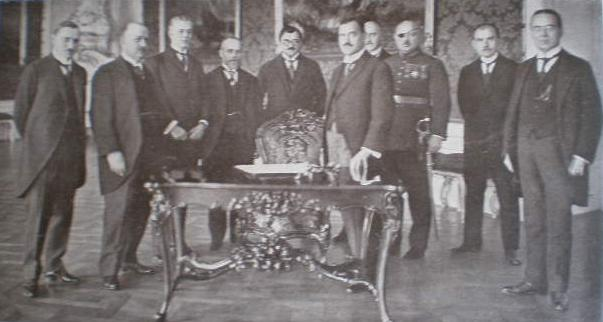 Jan Černý ministry (18. March 1926 - 12. October 1926). From the left: Juraj Slávik, Jozef Kállay, Jan Říha, Maxmilián Fatka, Karel Engliš, Jan Černý, Jiří Haussmann, Jan Syrový, Josef Schieszl, František Peroutka.